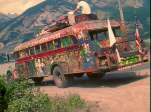 Ken Kesey's original bus "Further"